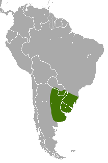 Southern Long-nosed Armadillo (Dasypus hybridus) range